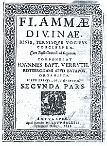 Flammae divinae, by composer Jan Baptist Verrijt, published in 1649 in Antwerp by Phalesius.